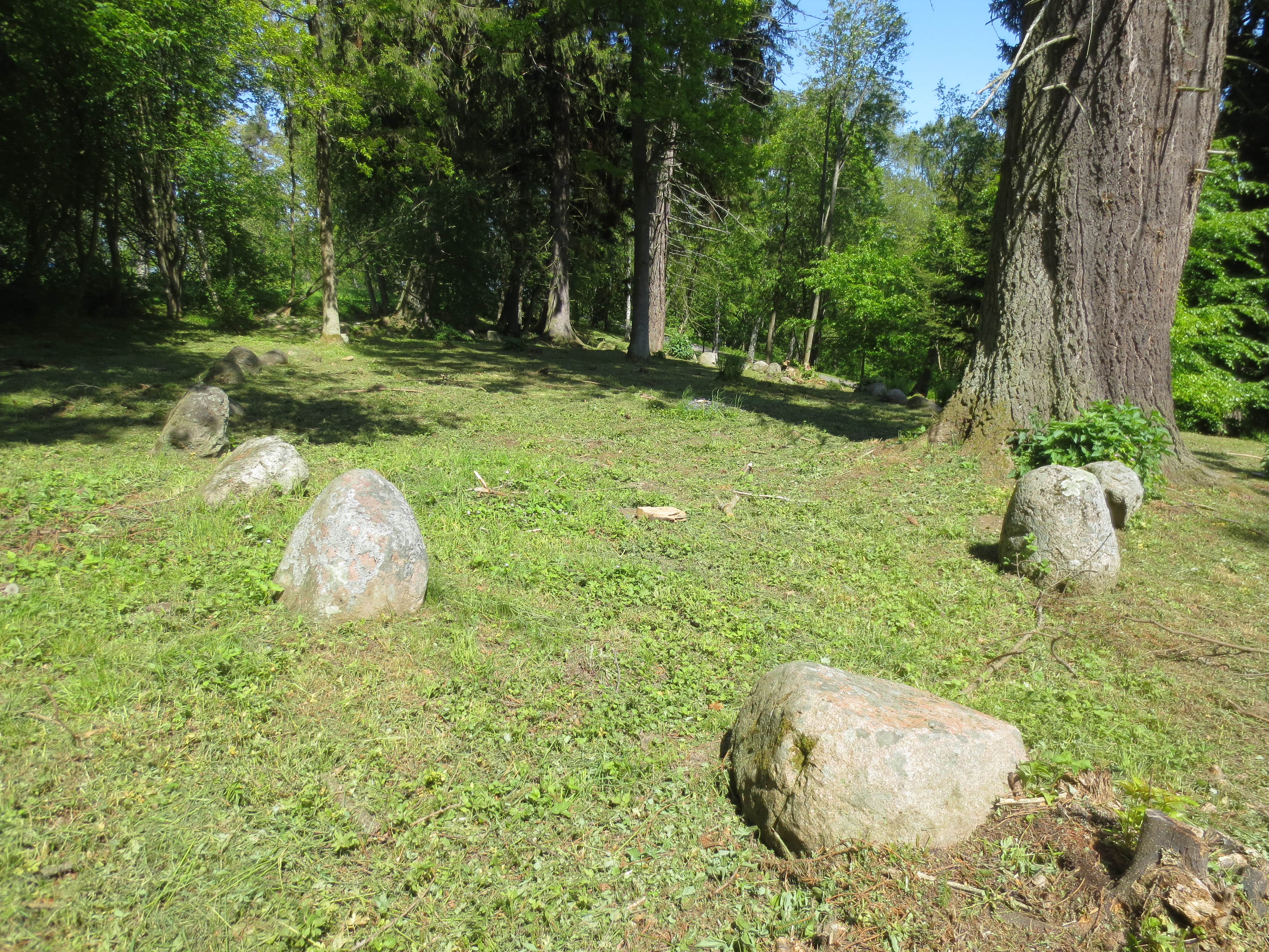 Det pedagogiska gravfältet i Jönköpings stadspark.